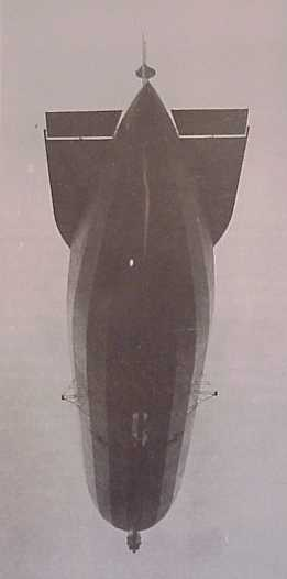 L 18 in Hannover